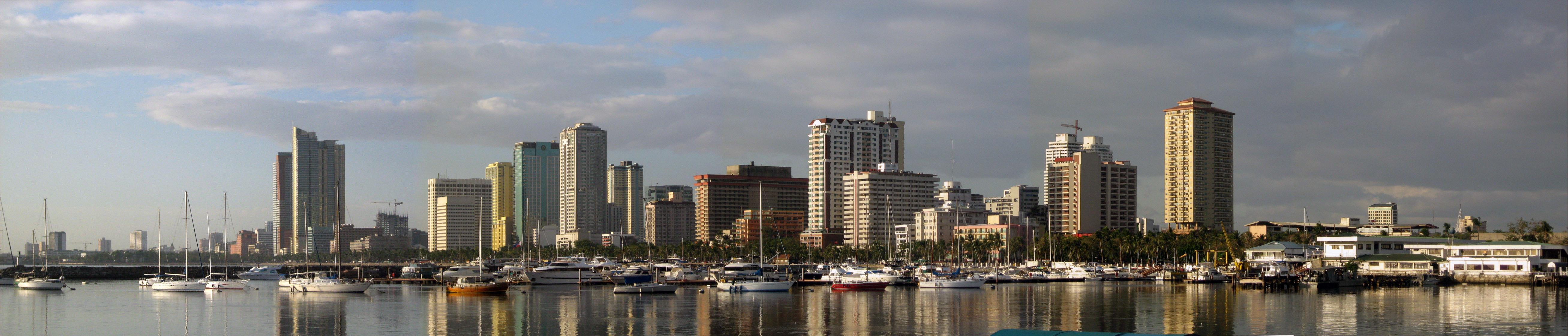 A panorama of the Manila skyline, taken from Harbour Square.